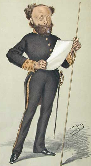 Caricature of Lord Otho FitzGerald. Caption read "A Message from the Queen".